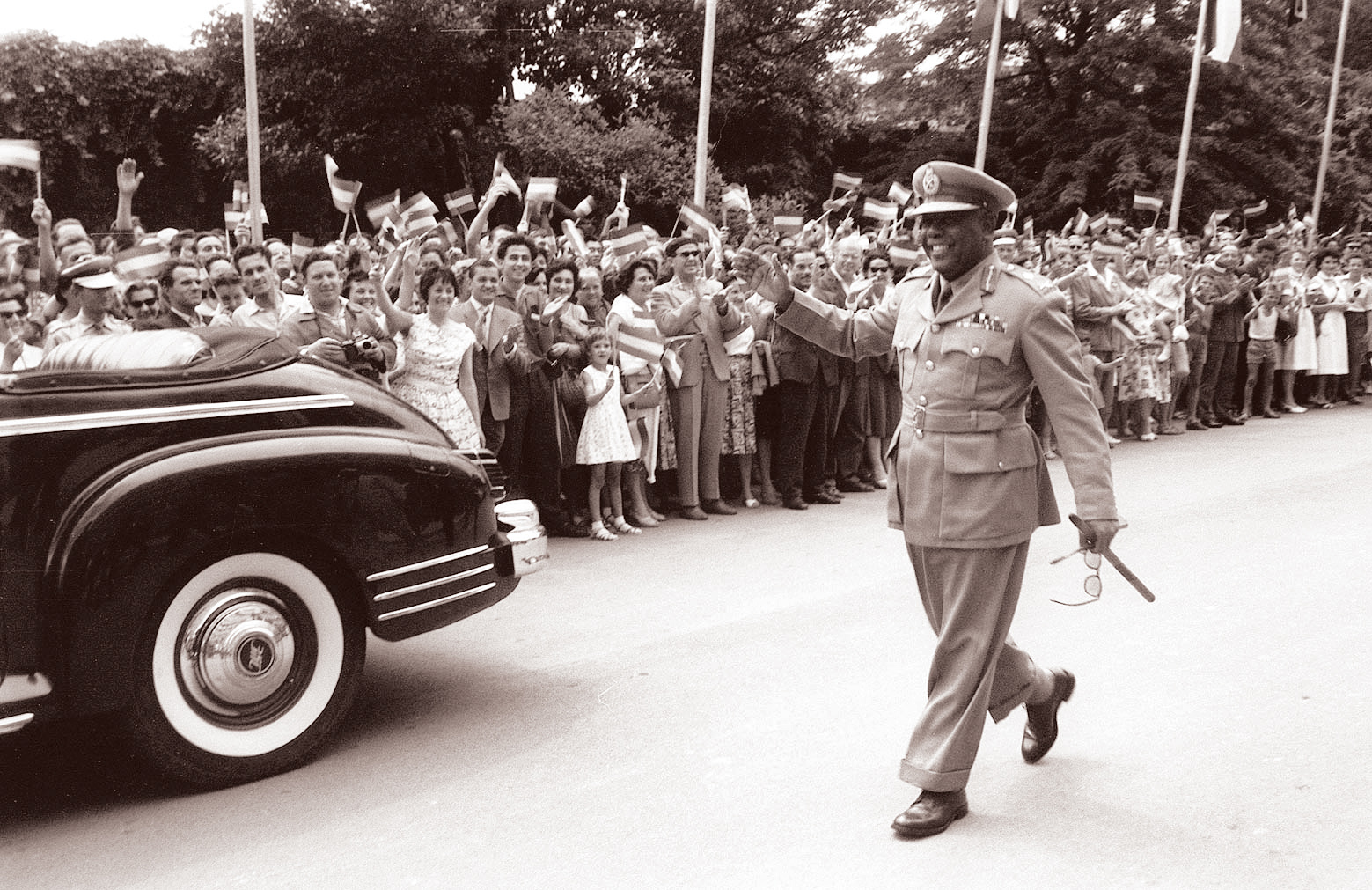 Sudanese prime minister Ibrahim Abboud in a state visit to Ljubljana